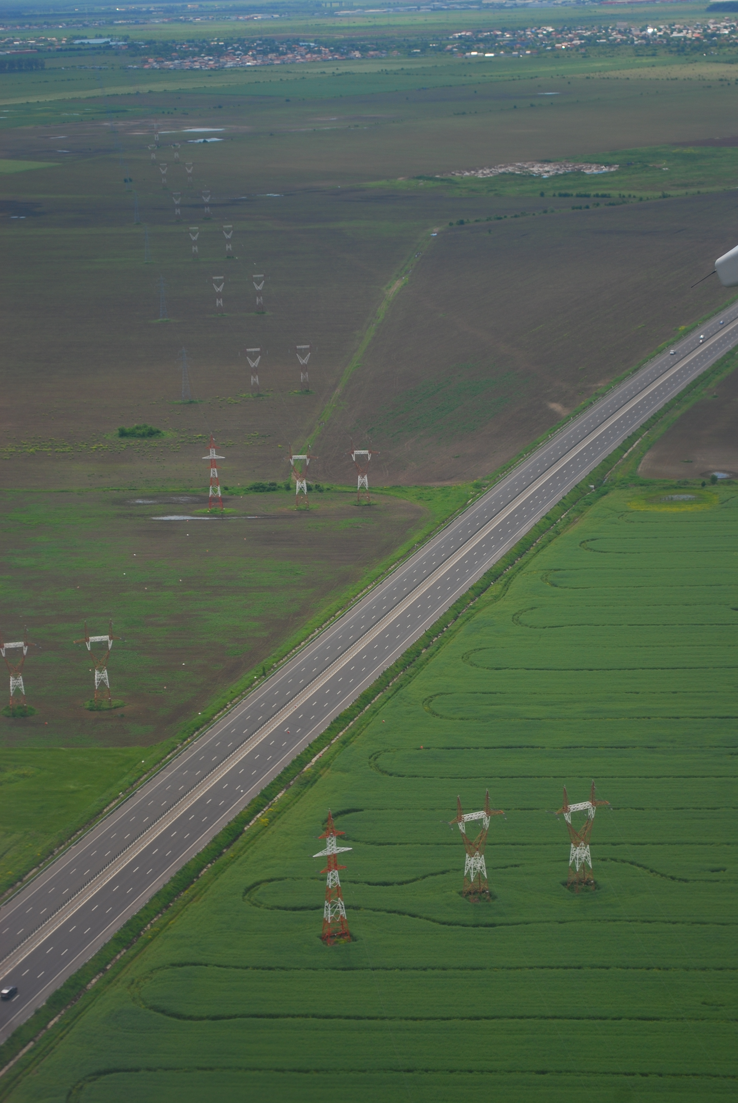 Romanian A3 motorway seen from an airplane around Ștefăneștii de Jos, Ilfov County